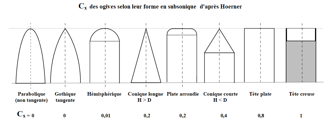 Frontal Cd of rocket noses according to their form after the Hoerner "Drag". Hoerner even gave negative Cd for the first nose (apparently parabolic), but it is only the pressure Cd.[3].